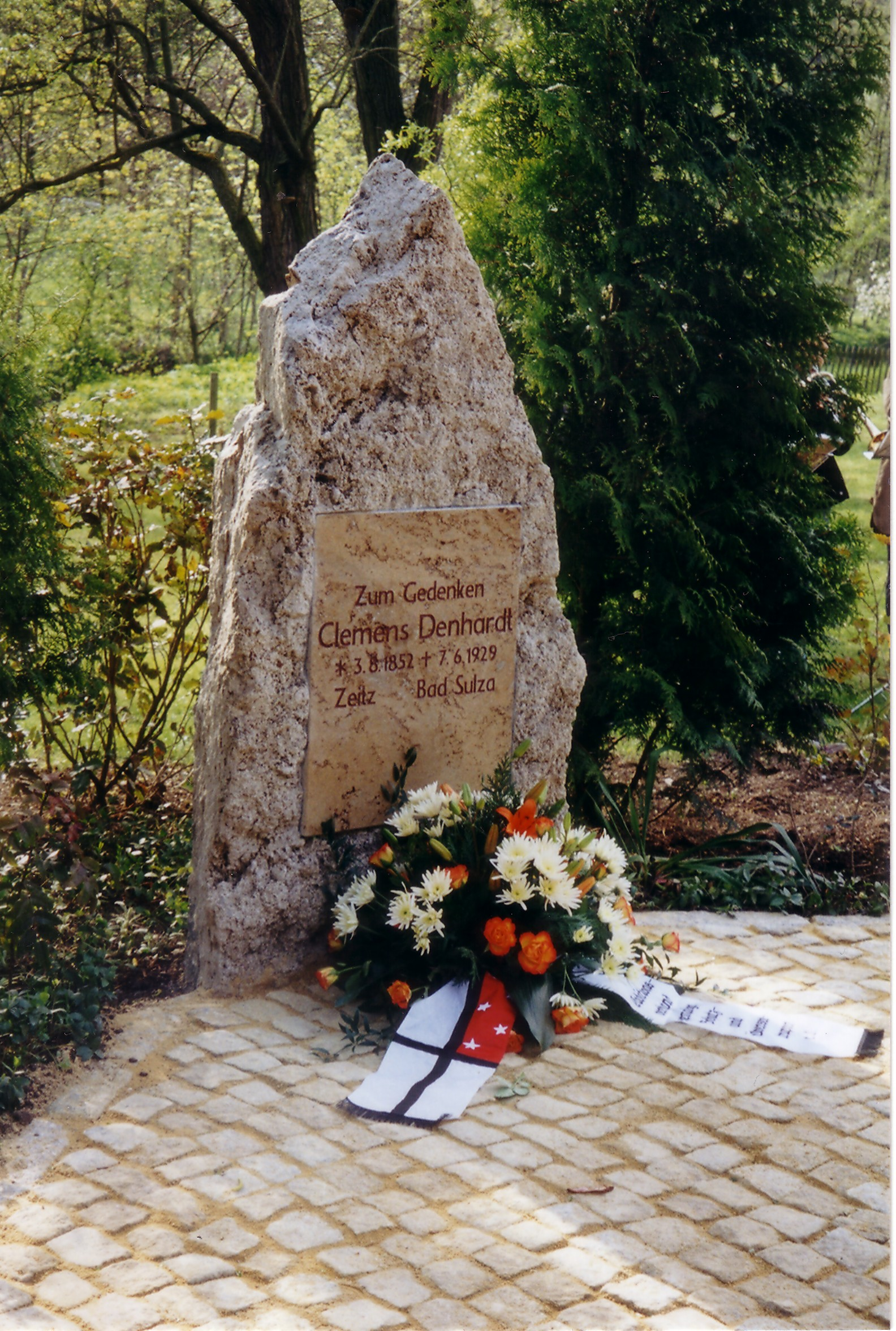 Clemens Denhardt memorial stone in Bad Sulza, Deutschland